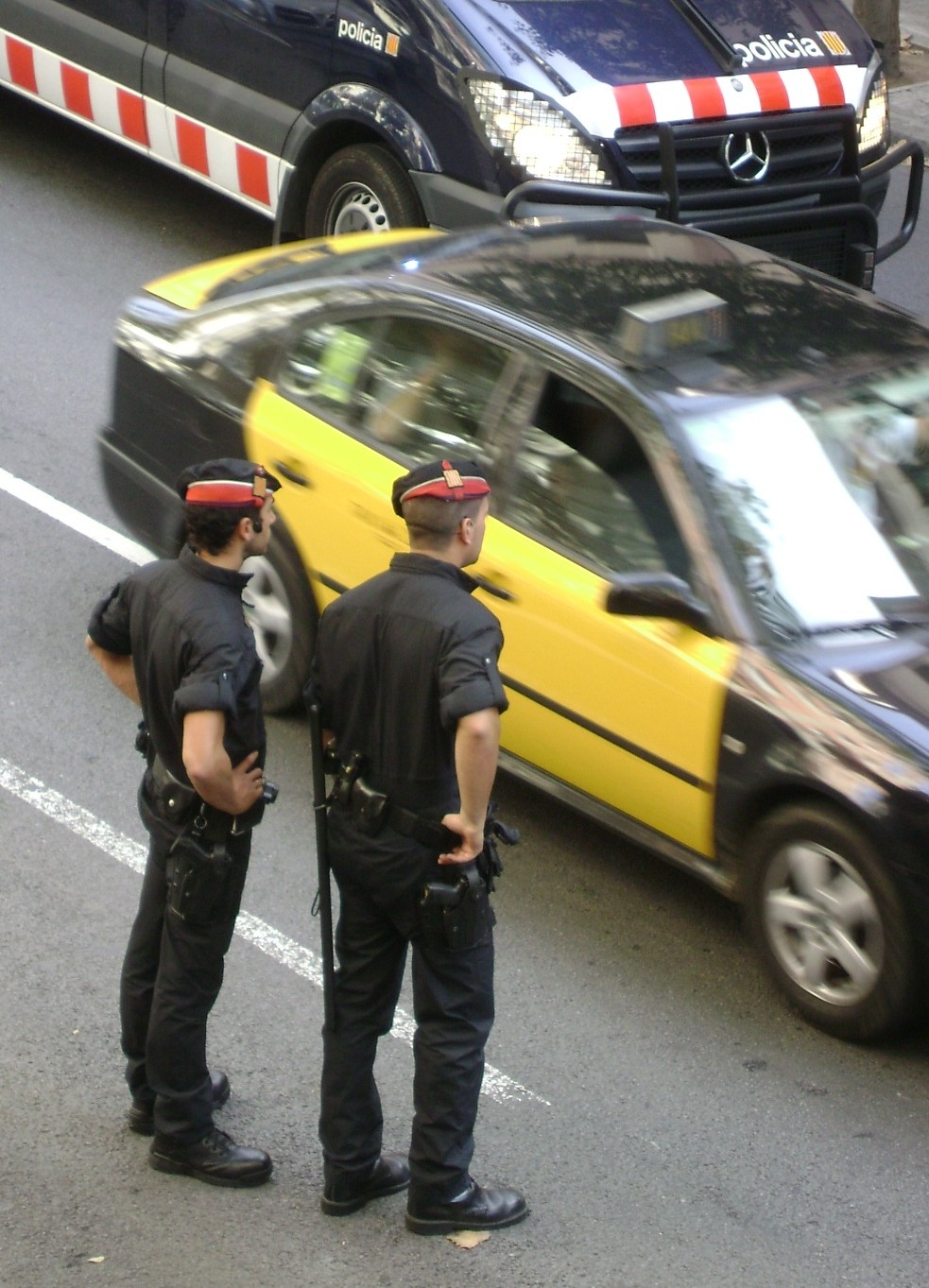 Two riot-control officers near their van.